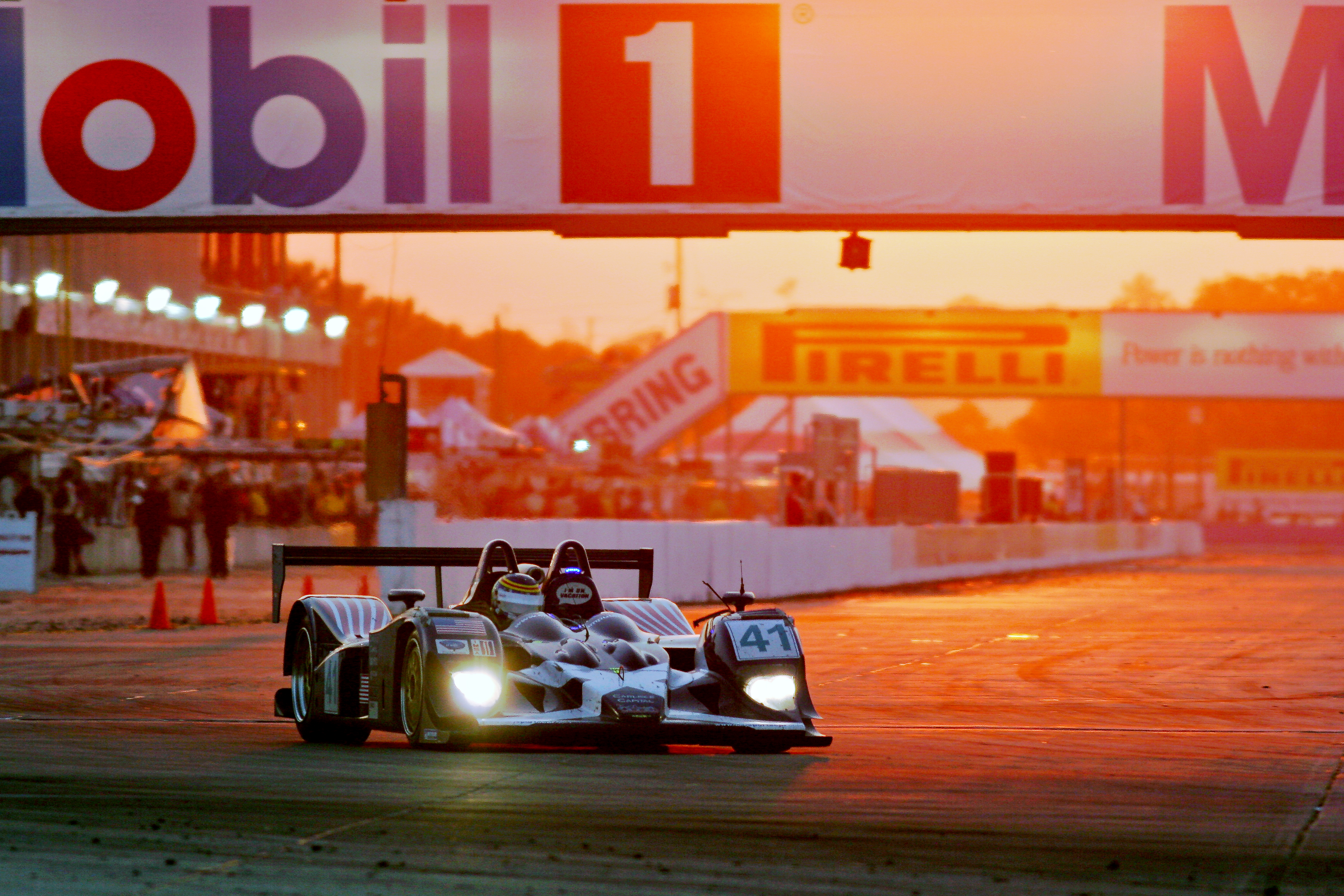 Allen Timpany, Lola, Binnie Motorsports, Sebring